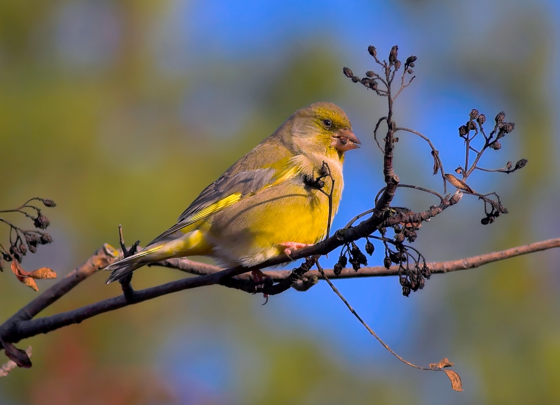 European Greenfinch in harsh autumn morning light, eating the last berries of autumn. Photographed at Helsinki, Finland,(N):20543,(E):49048